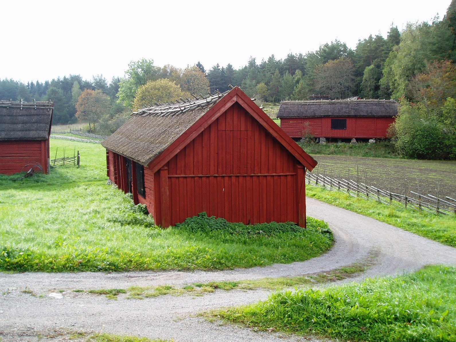 Viby, old village in Sigtuna Municipality, Sweden